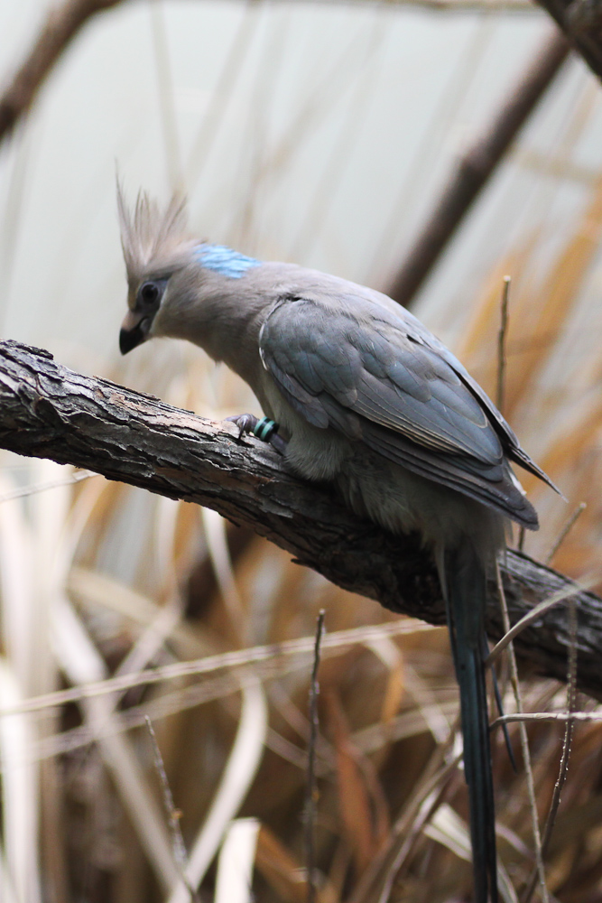 A Blue-naped Mousebird at Wilhelma Zoo, Stuttgart, Germany.